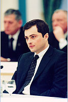 Vladislav Surkov